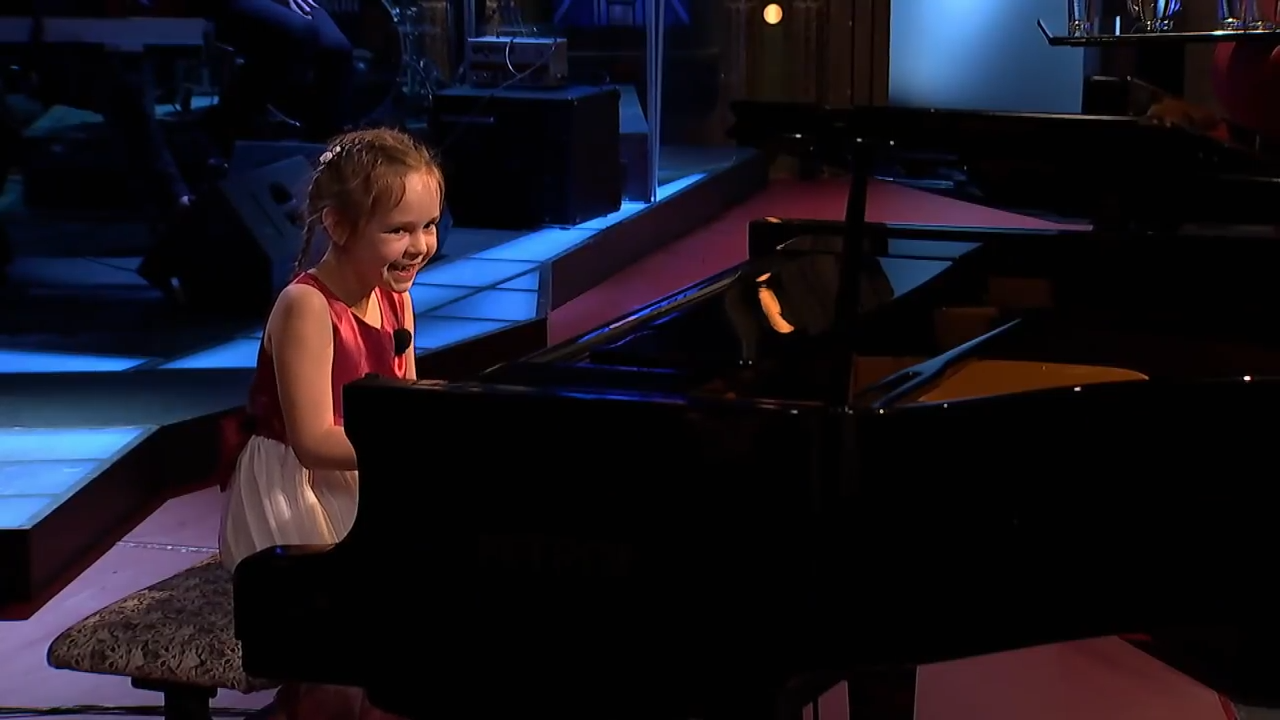 Czech child piano prodigy player Klára Gibišová